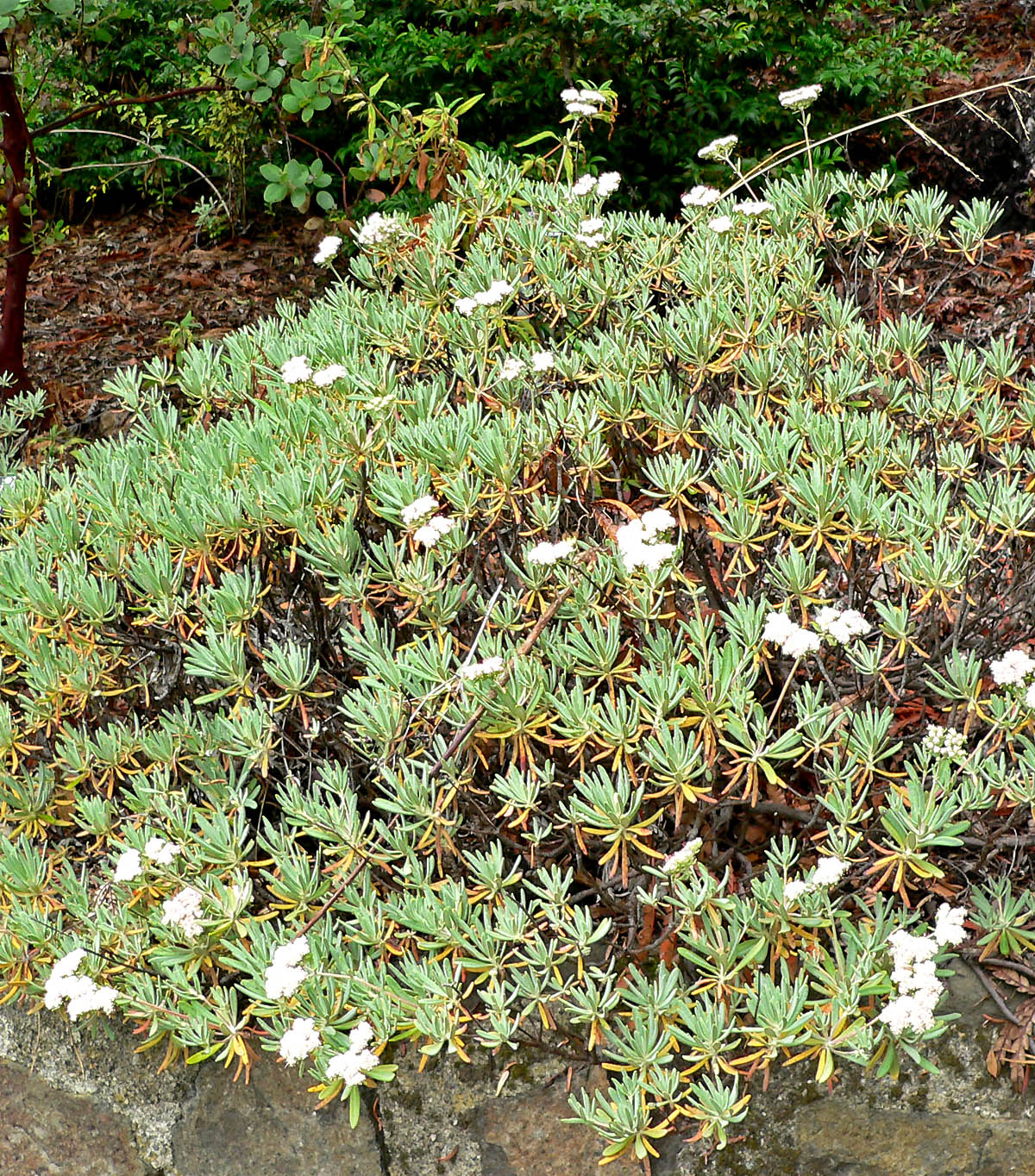 Photo of Eriogonum arborescens at the Regional Parks Botanic Garden